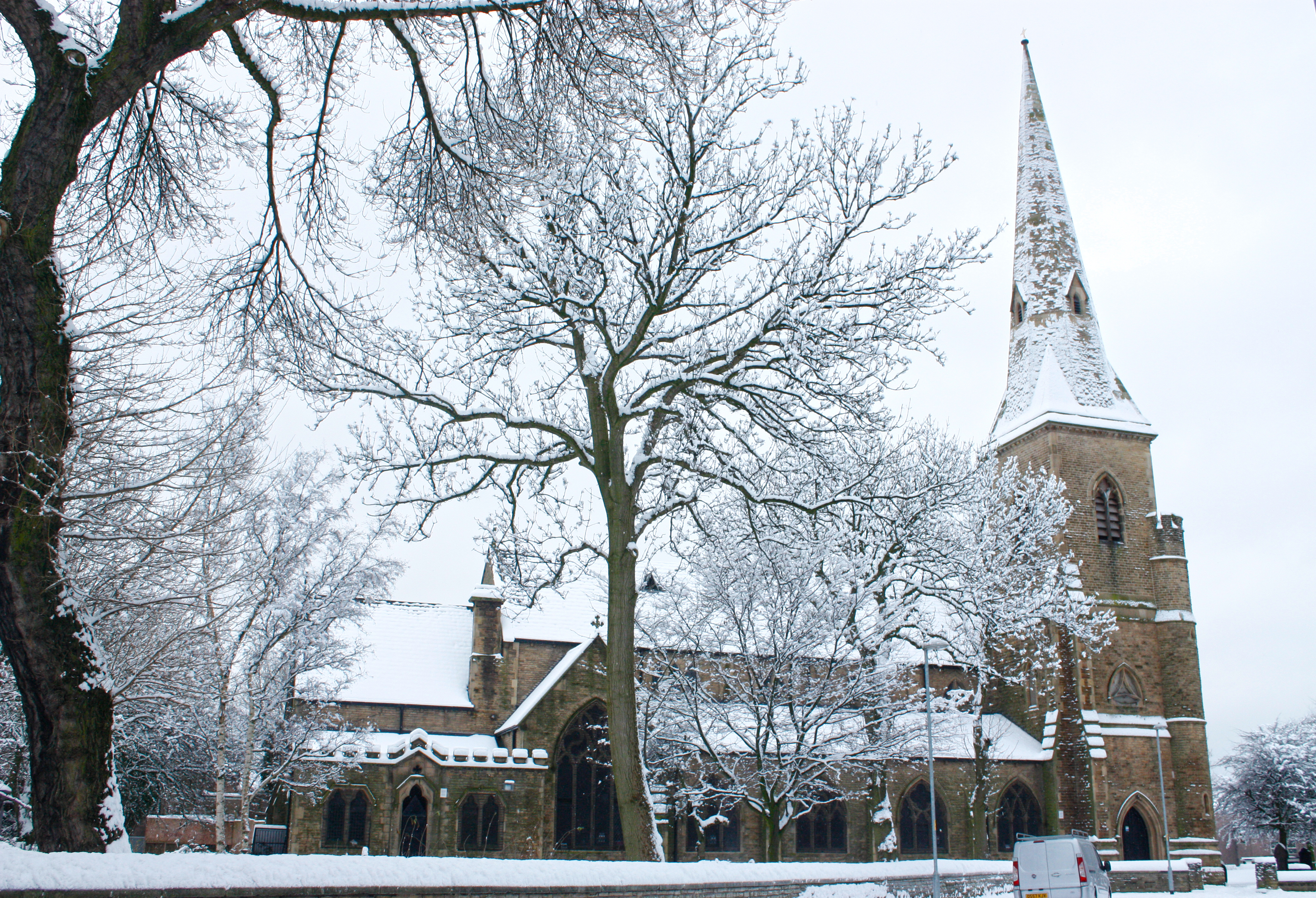 St James Church Gorton, winter snow trees